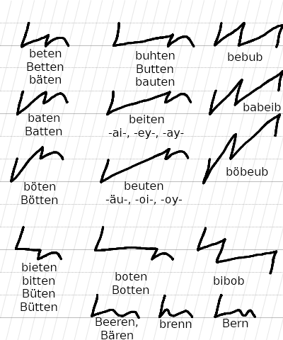 Vowels and diphthongs of the "Stiefografie" (rationelle Stenografie) shorthand system for German.